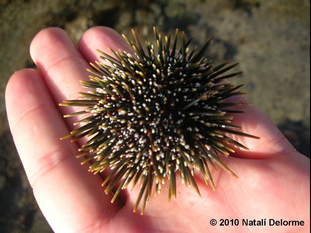 New Zealand sea urchin, Evechinus chloroticus